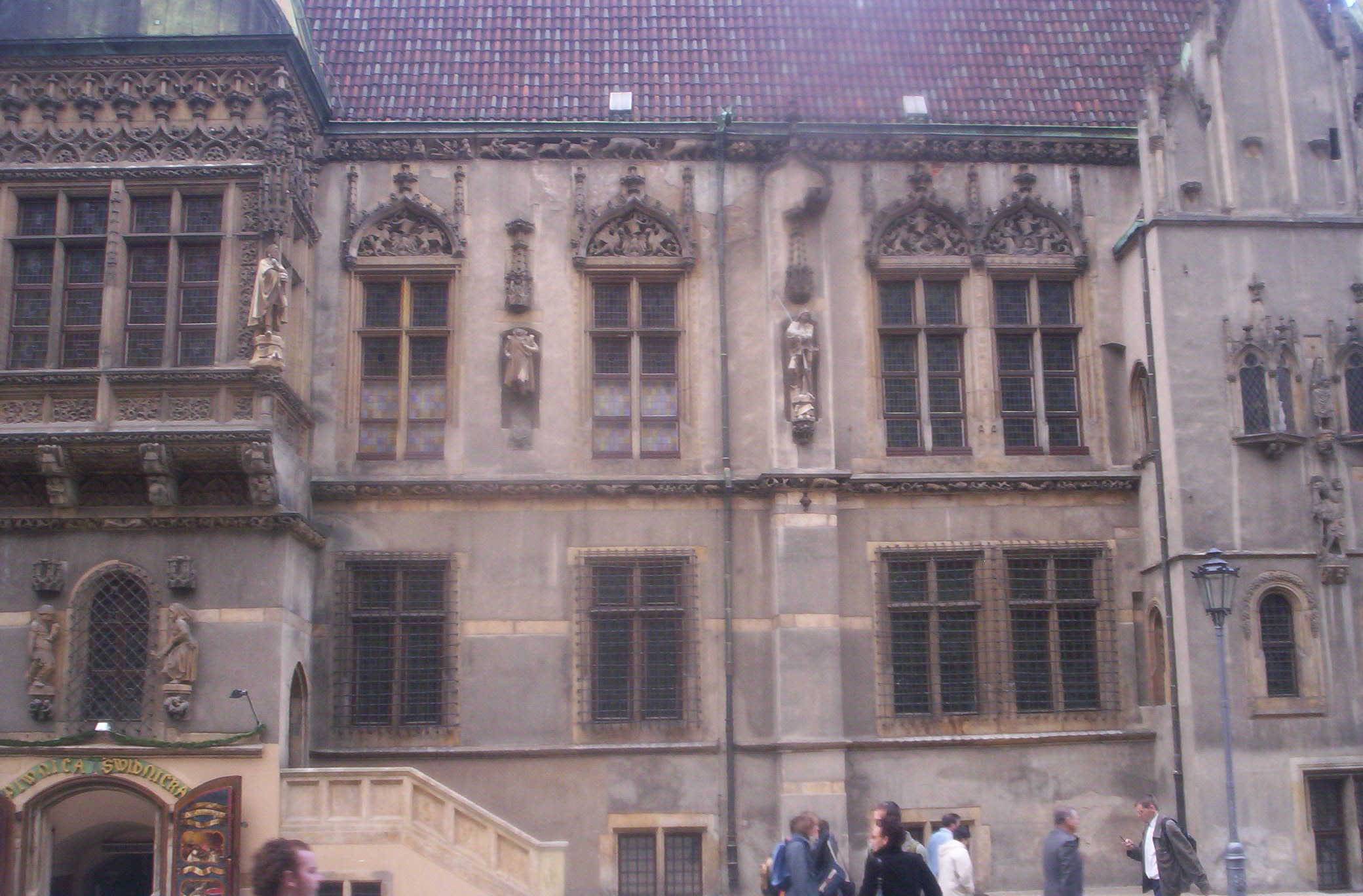 Wrocław city hall. Picture taken on April 28, 2005 by Paweł Dembowski